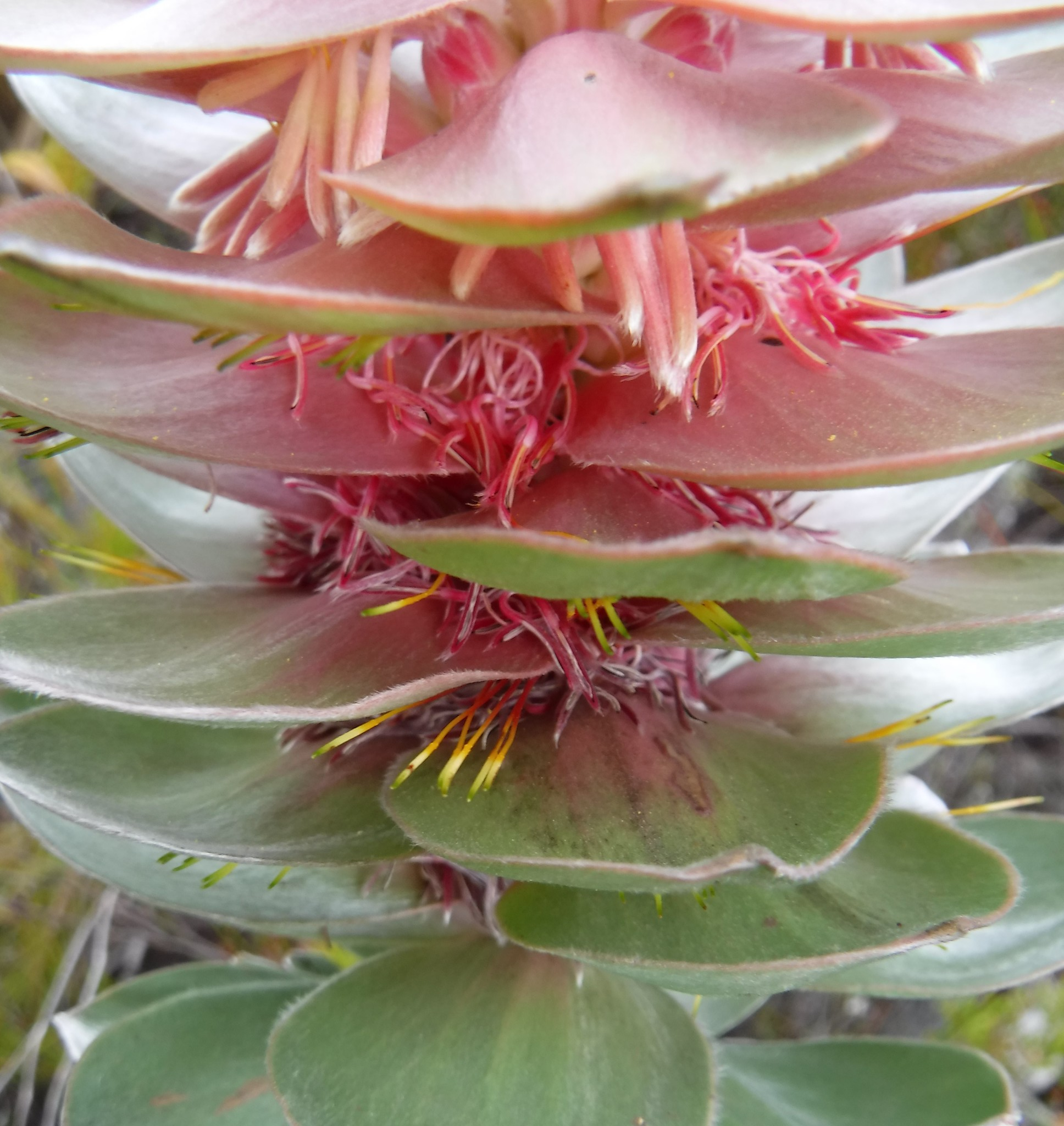 The silver pagoda, Mimetes argenteus, photographed by Nick Helme, on 14 April 2018, at the Dwarsberg, Hottentots Holland, Caledon County, Western Cape province, South Africa